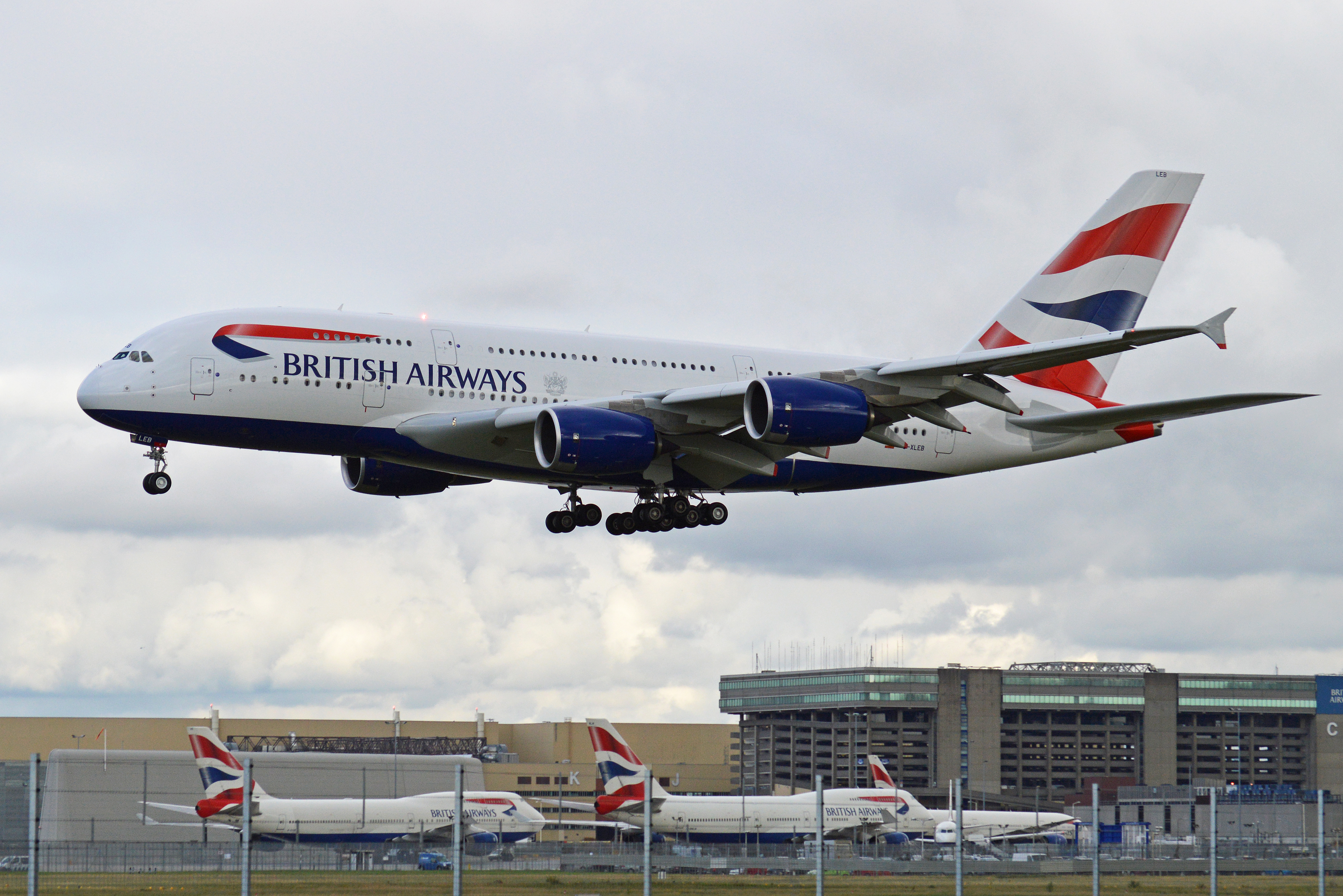 Arriving on flight BA282 from LAX. Shame the sun had vanished! c/n 121. Delivered only two weeks earlier on 19-9-2013. London Heathrow. 5-10-2013